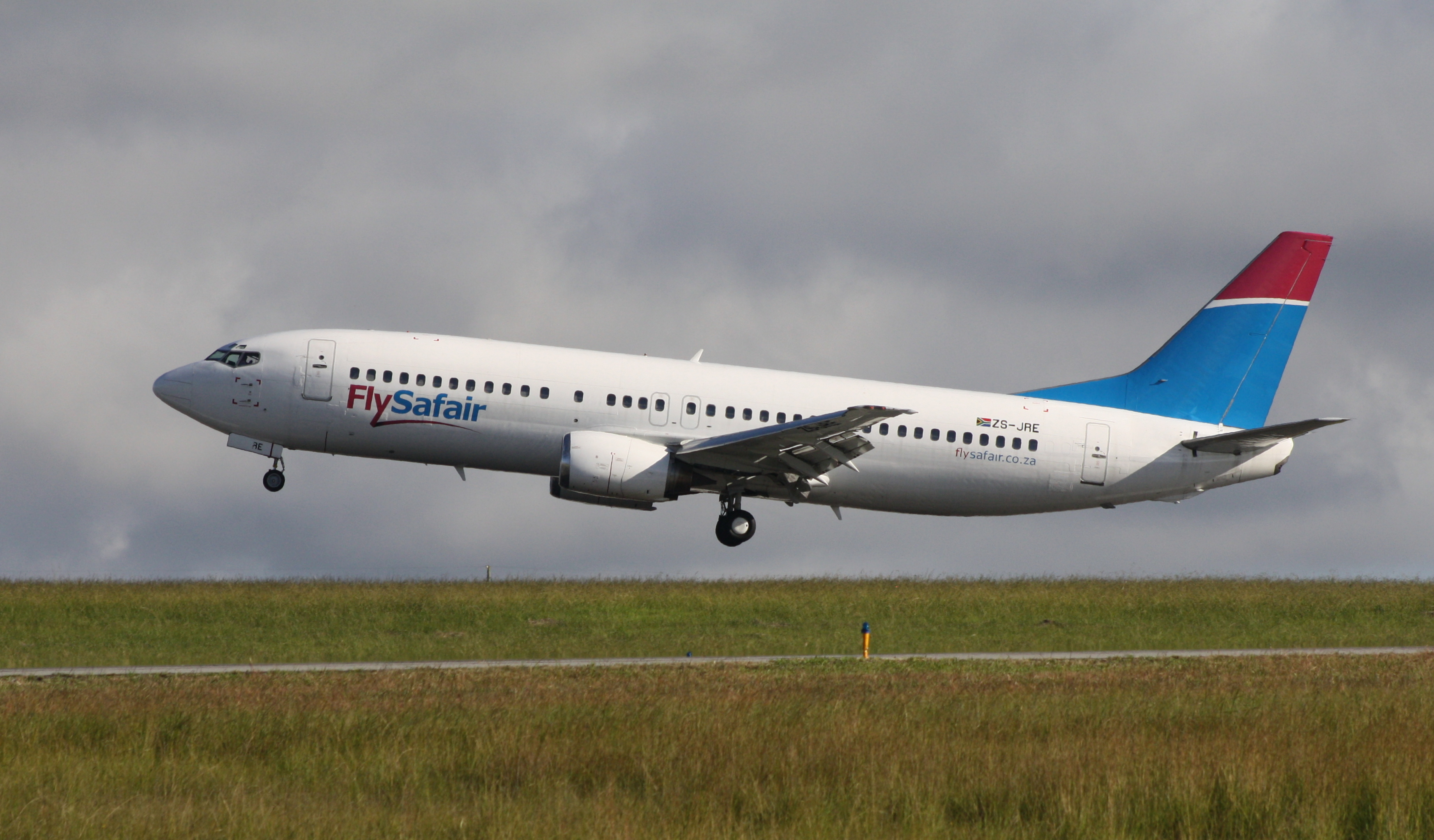 FlySafair B737-4Y0 ZS-JRE (Flying for Mango)